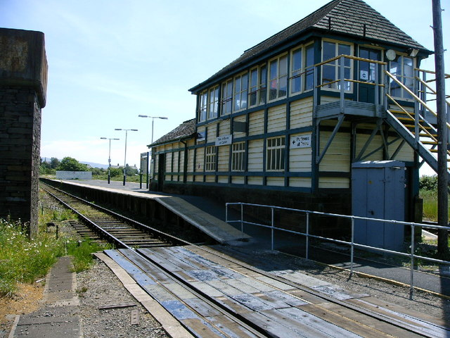 Foxfield railway station Original description: Foxfield Signal Box and Station Another photo of Foxfield Signal Box and Station Platform with the water tower just visible on the left. I remember it from the 1950s when the branch line to Coniston was still open. As a young railway enthusiast, I was allowed into the signal box to watch and, on one occasion, allowed to ride on the engine footplate to Broughton in Furness and even to start the engine! None of that "Health and safety" nonsense in those days!